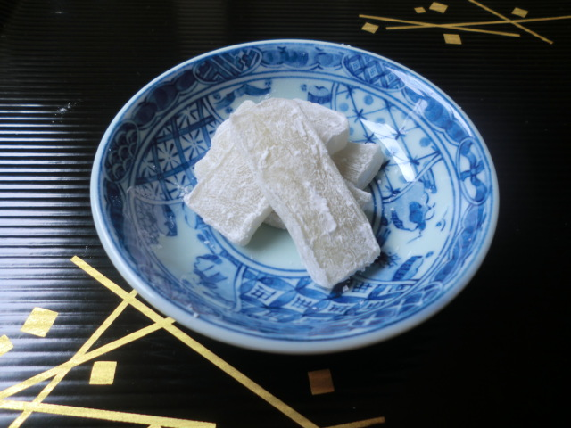 "Chosen Ame"(=Korean Candy) ,famous confectionary of Kumamoto city,Japan.